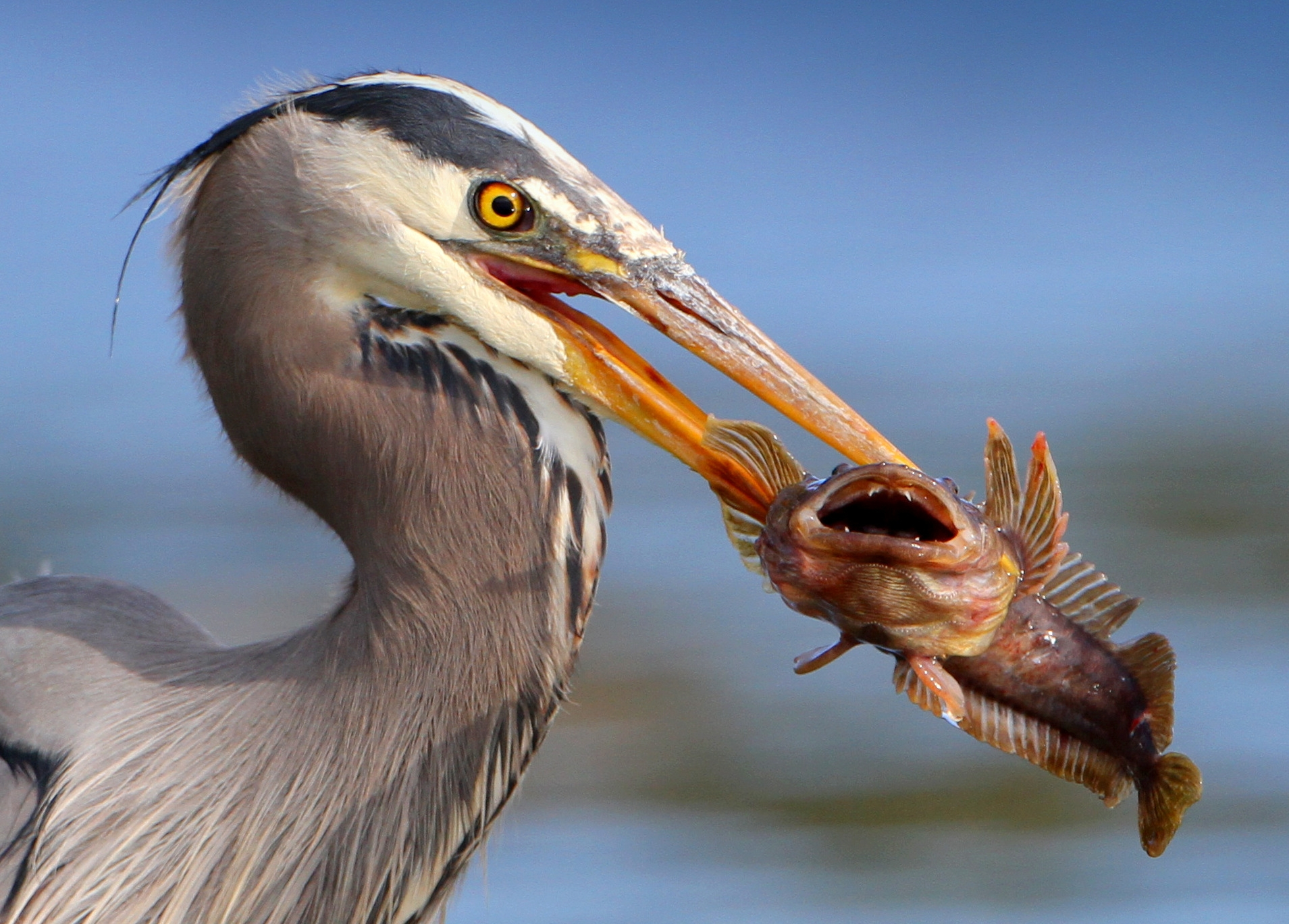 Great Blue Heron Ardea herodias eating fish. British Columbia, Canada.